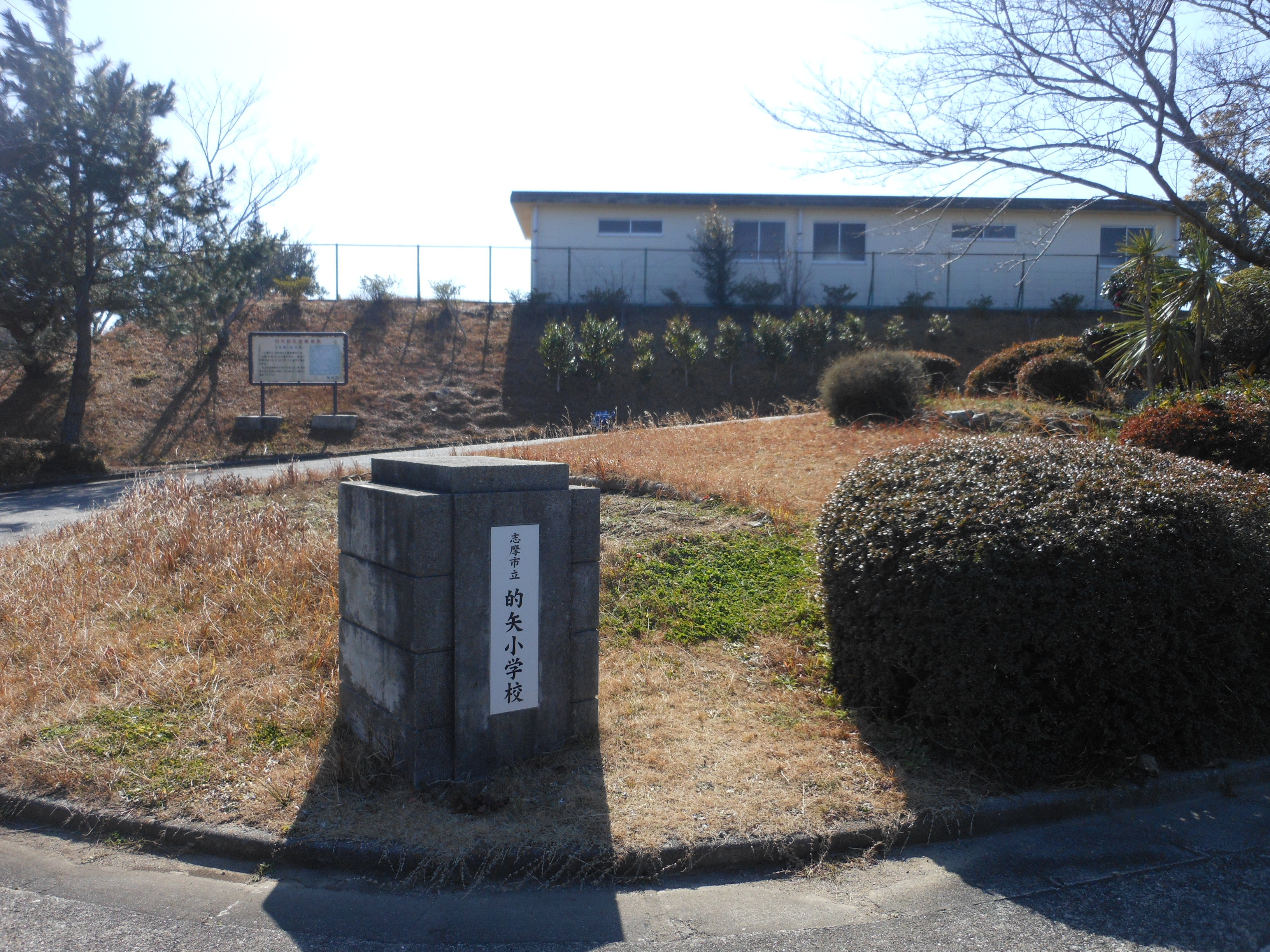 This is an entrance of Shima city Matoya elementary school in Shima, Mie, Japan.